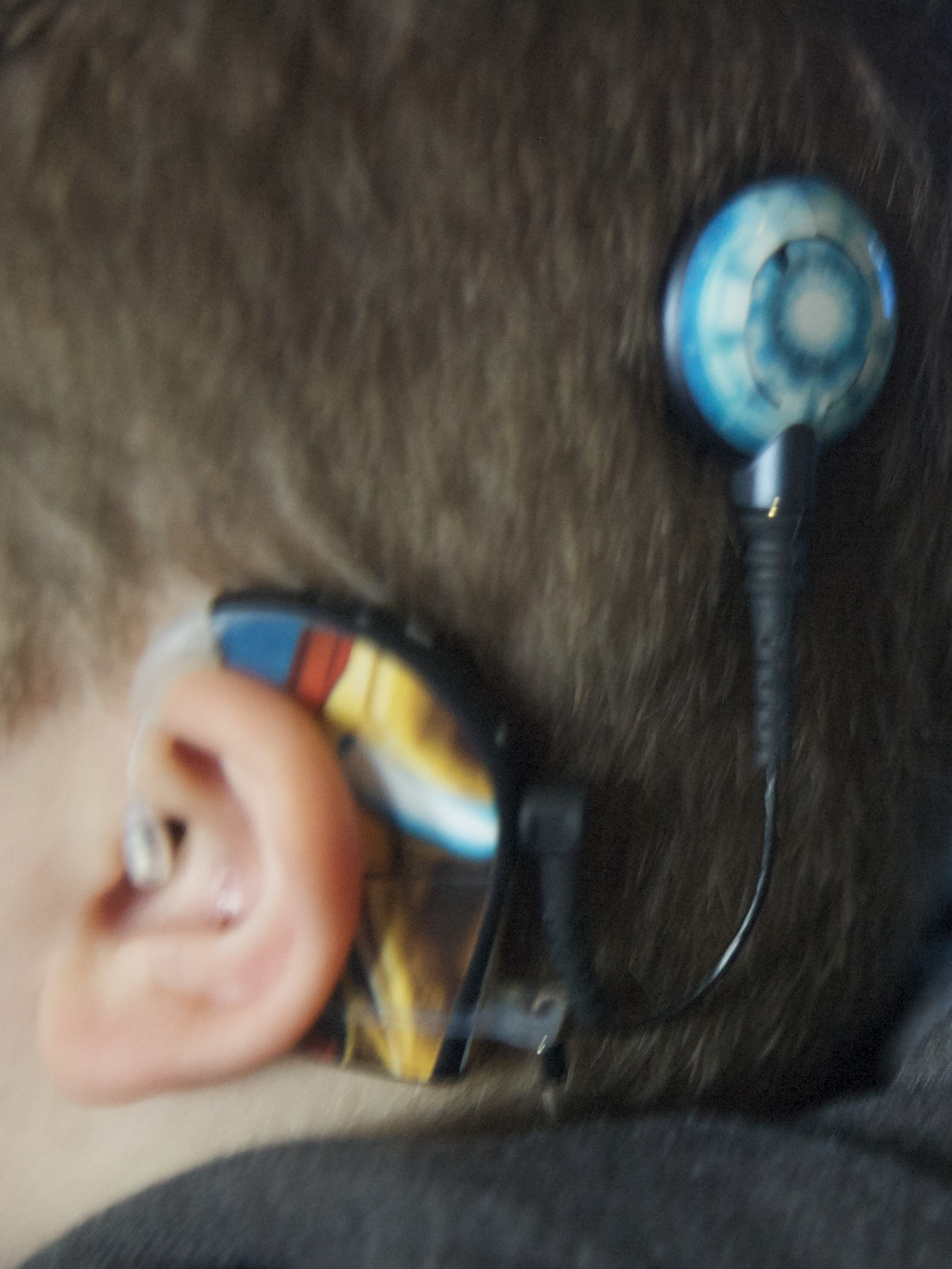 A child's decorated Advanced Bionics Naída speech processor of a cochlear implant.